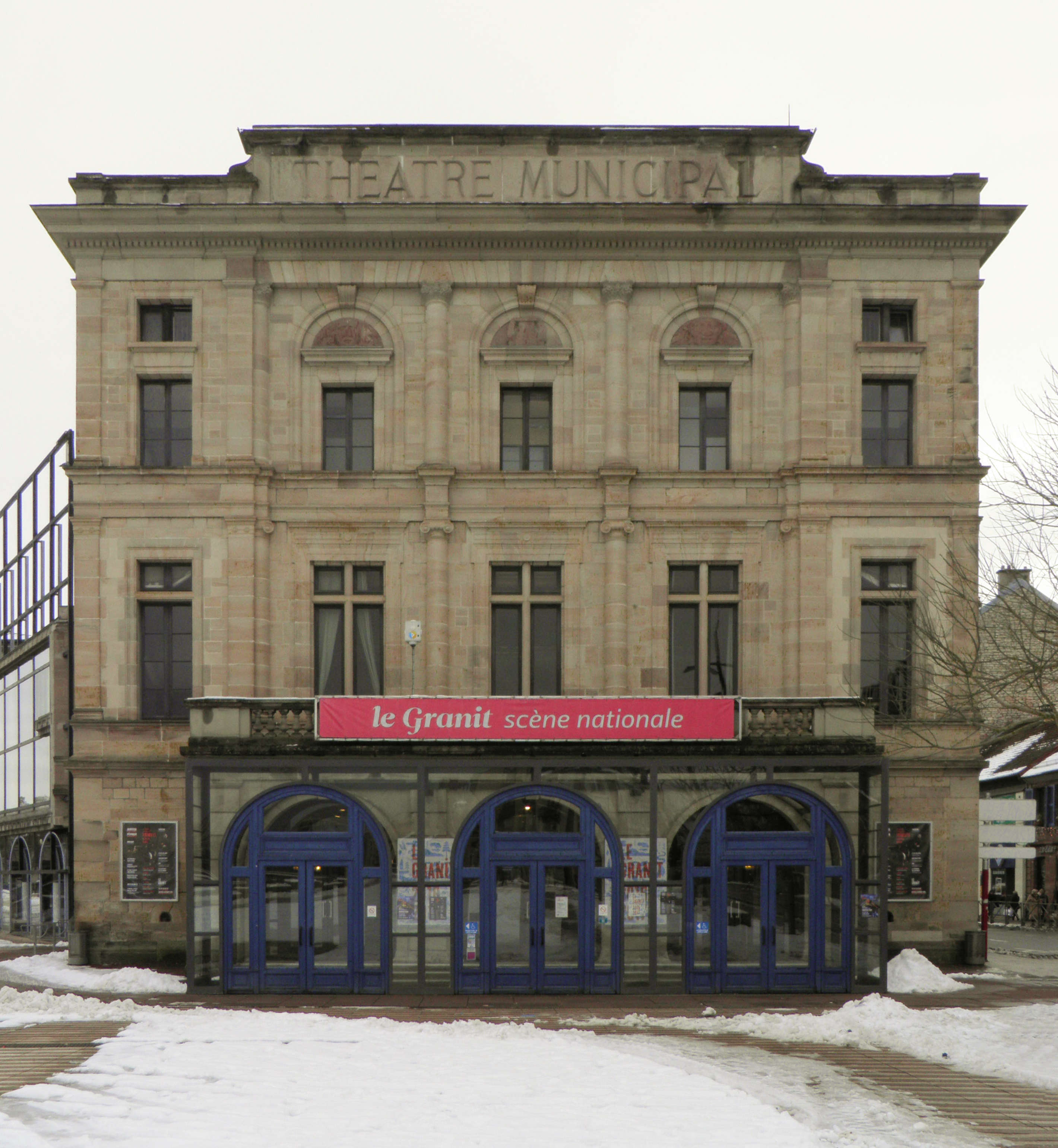 Theater in Belfort (Territoire de Belfort, France).